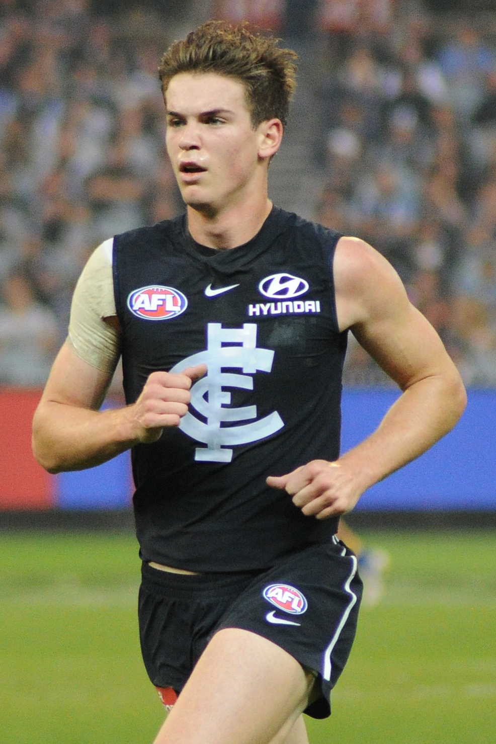 Paddy Dow during the AFL round five match between Carlton and West Coast on 21 April 2018 at the Melbourne Cricket Ground in Melbourne, Victoria.